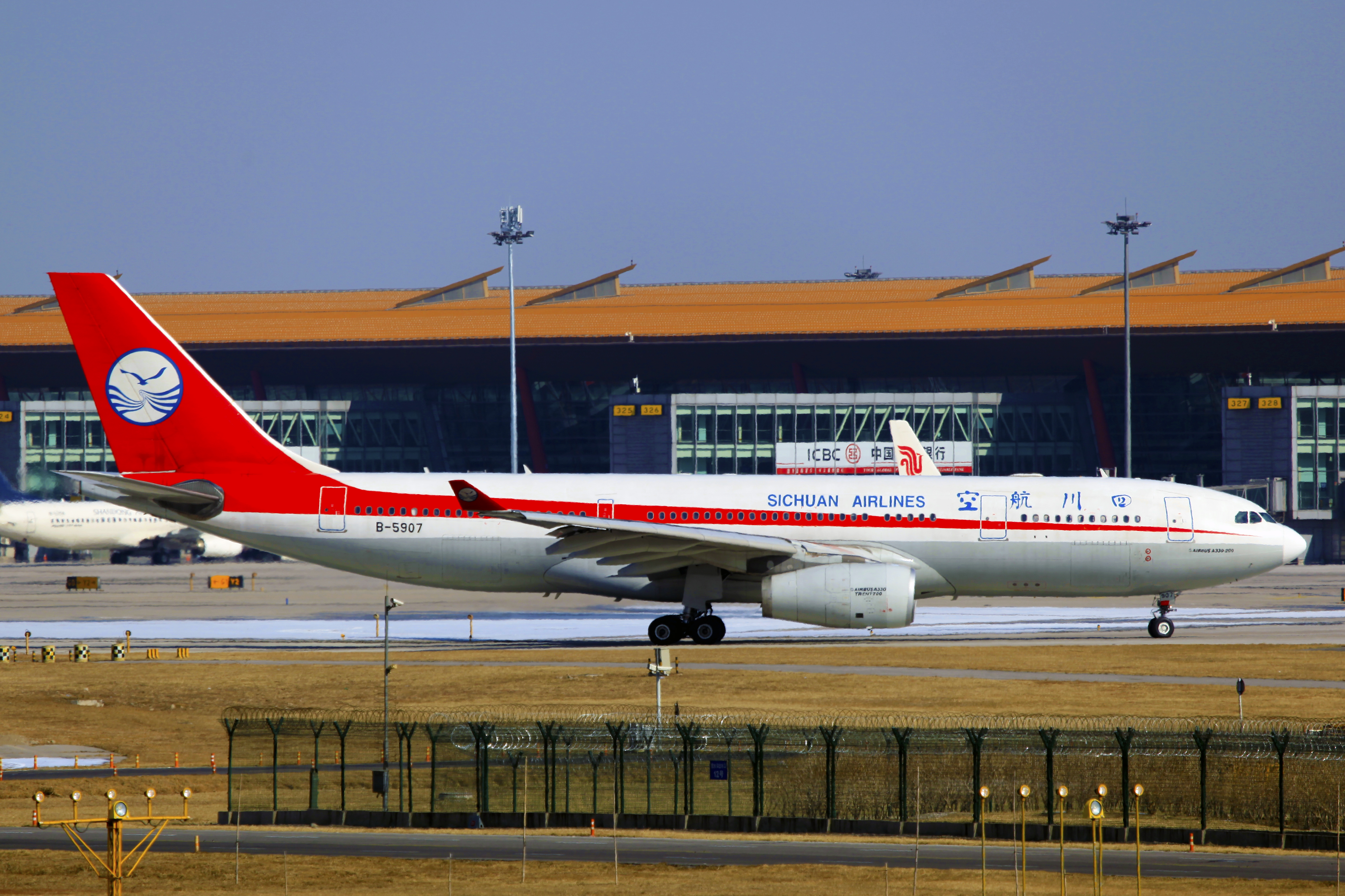 B-5907 | Sichuan Airlines | Airbus A330-243 | Beijing Capital International Airport [PEK]